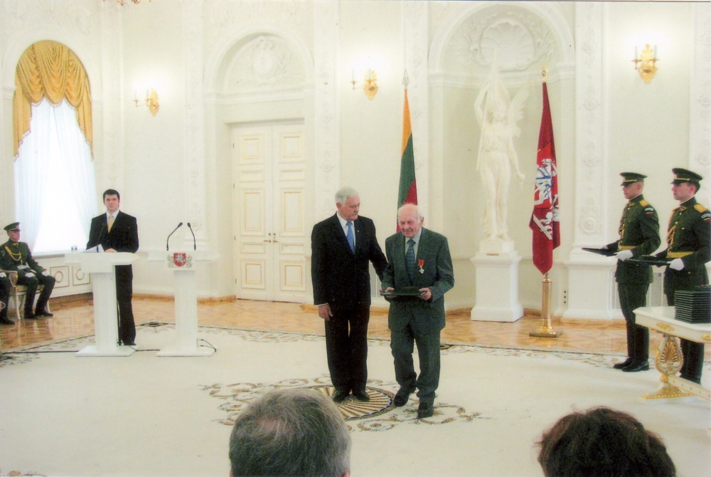 Antanas Krištopaitis (1921-2011) and Valdas Adamkus